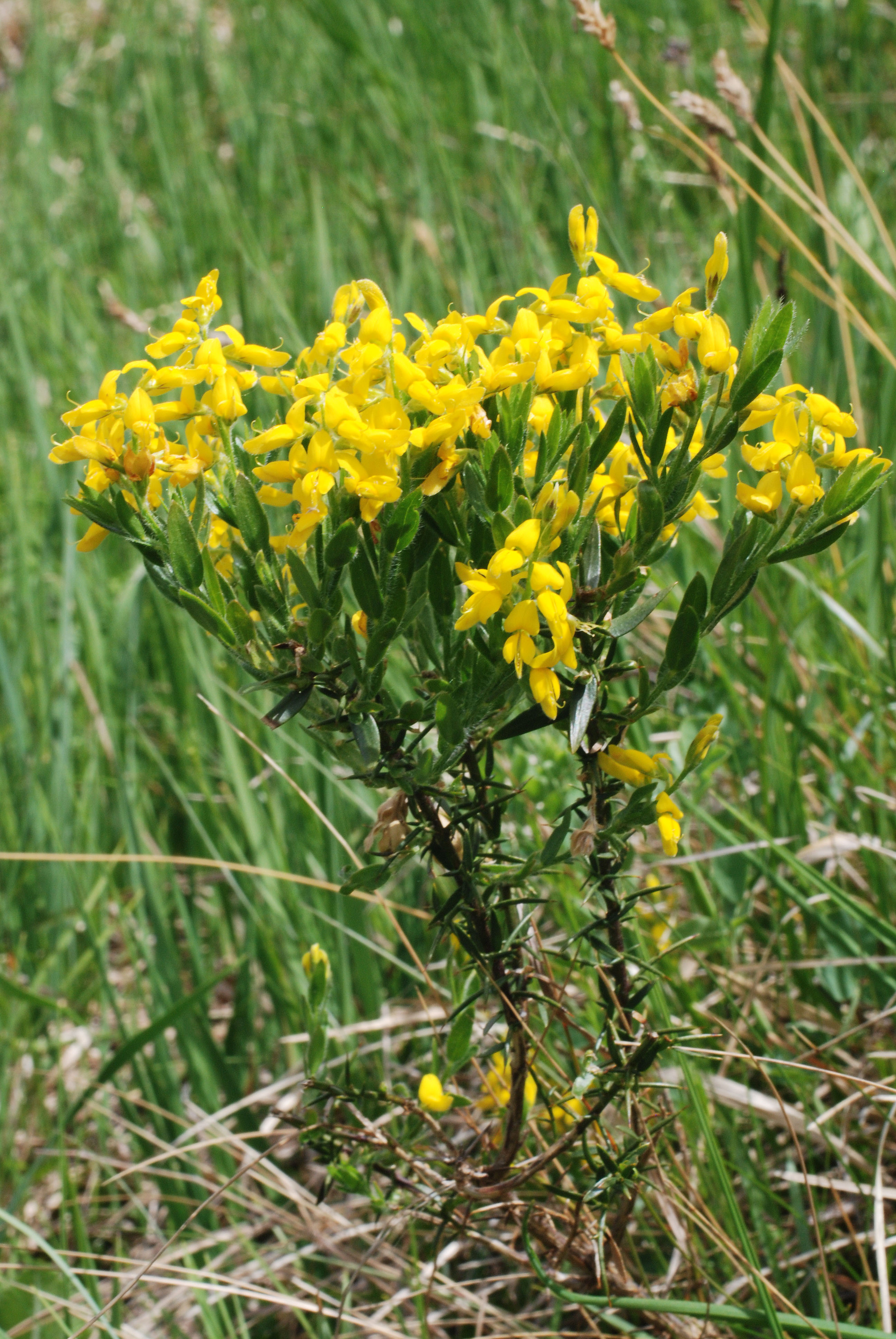 Genista germanica, Planwiesen, Upper Austria, Austria